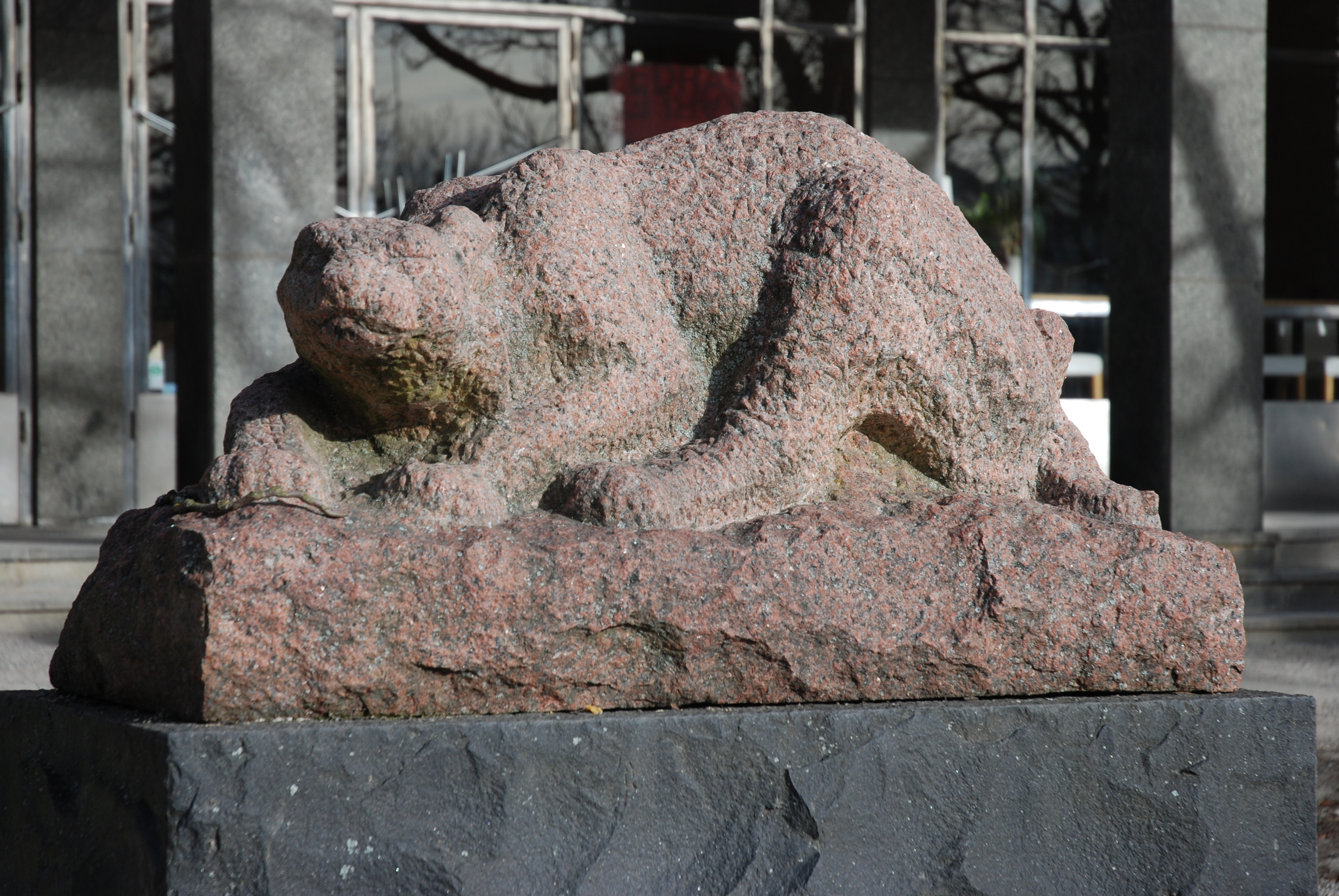 Georg Ganmar´s Lodjuret, Gubbängen, Stockholm, Sweden